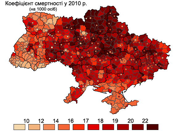 Death rate in Ukraine, 2010